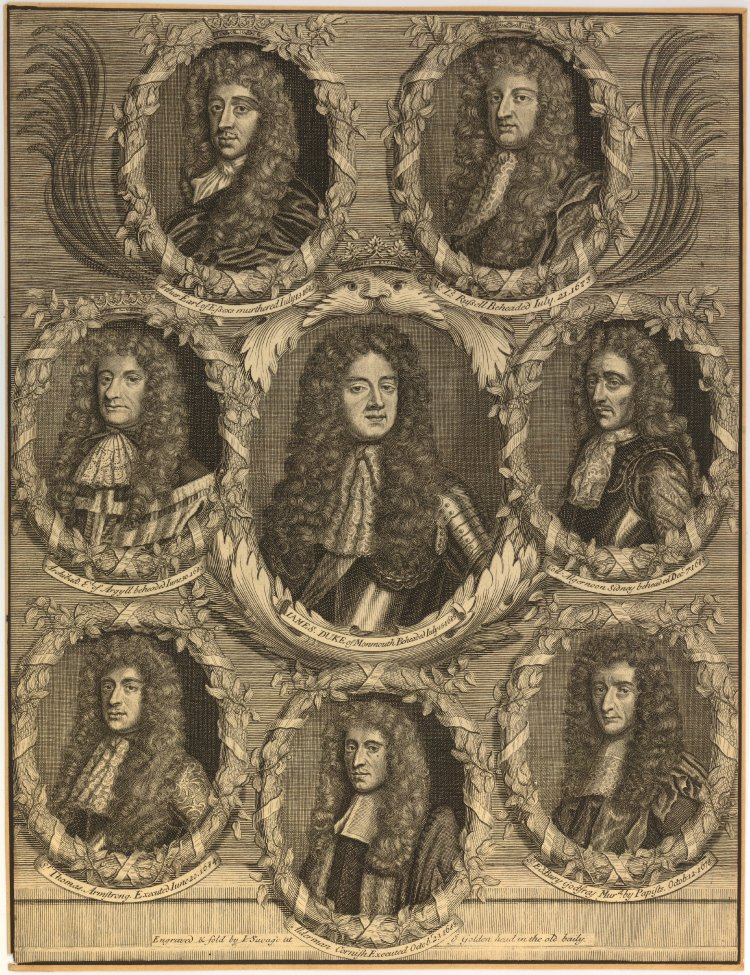 The Antipapists (see Savage, John (fl.1690-1700) (DNB00), political anti-Catholic joint portrait of seven figures of the Rye House Plot with Edward Berry Godfrey (connected with the Popish Plot).